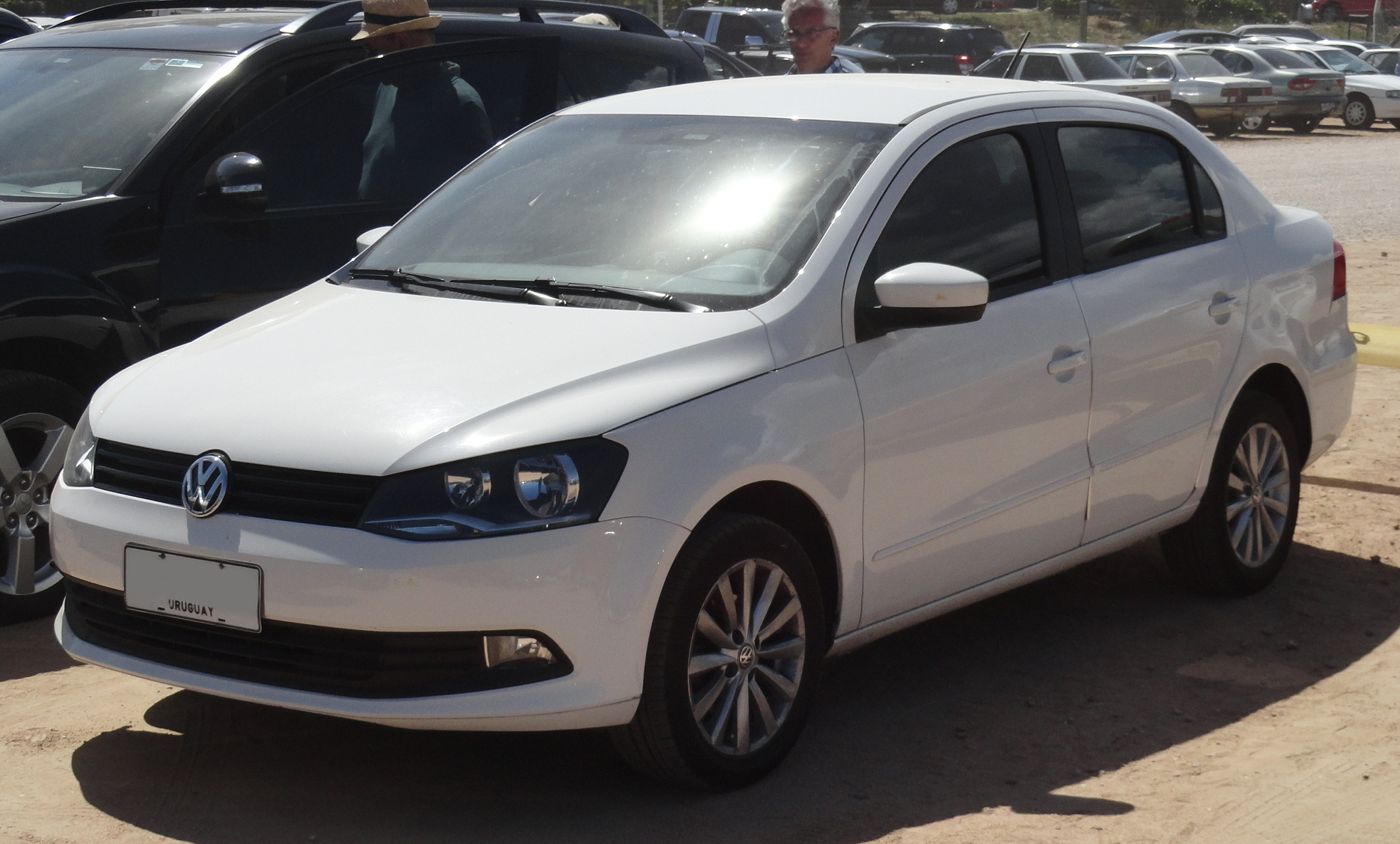 Volkswagen Gol sedán Mk6